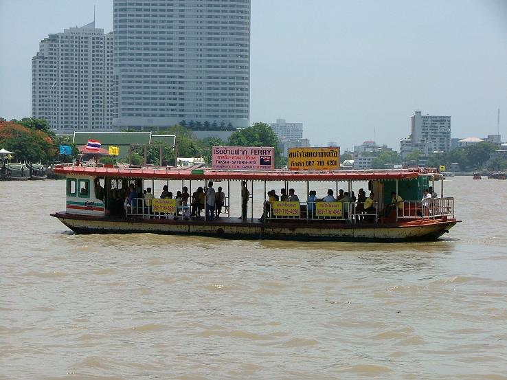 Ferry in Bangkok (Chao Phraya river).